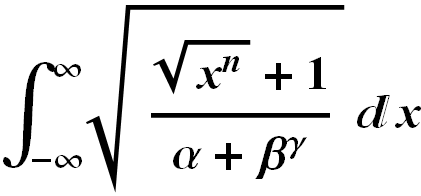 A typeset math expression of no particular meaning. Created to illustrated typesetting. Created in Mathematica.